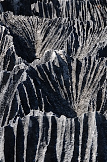 Soil, Mongolia, fot. Elżbieta Dzikowska